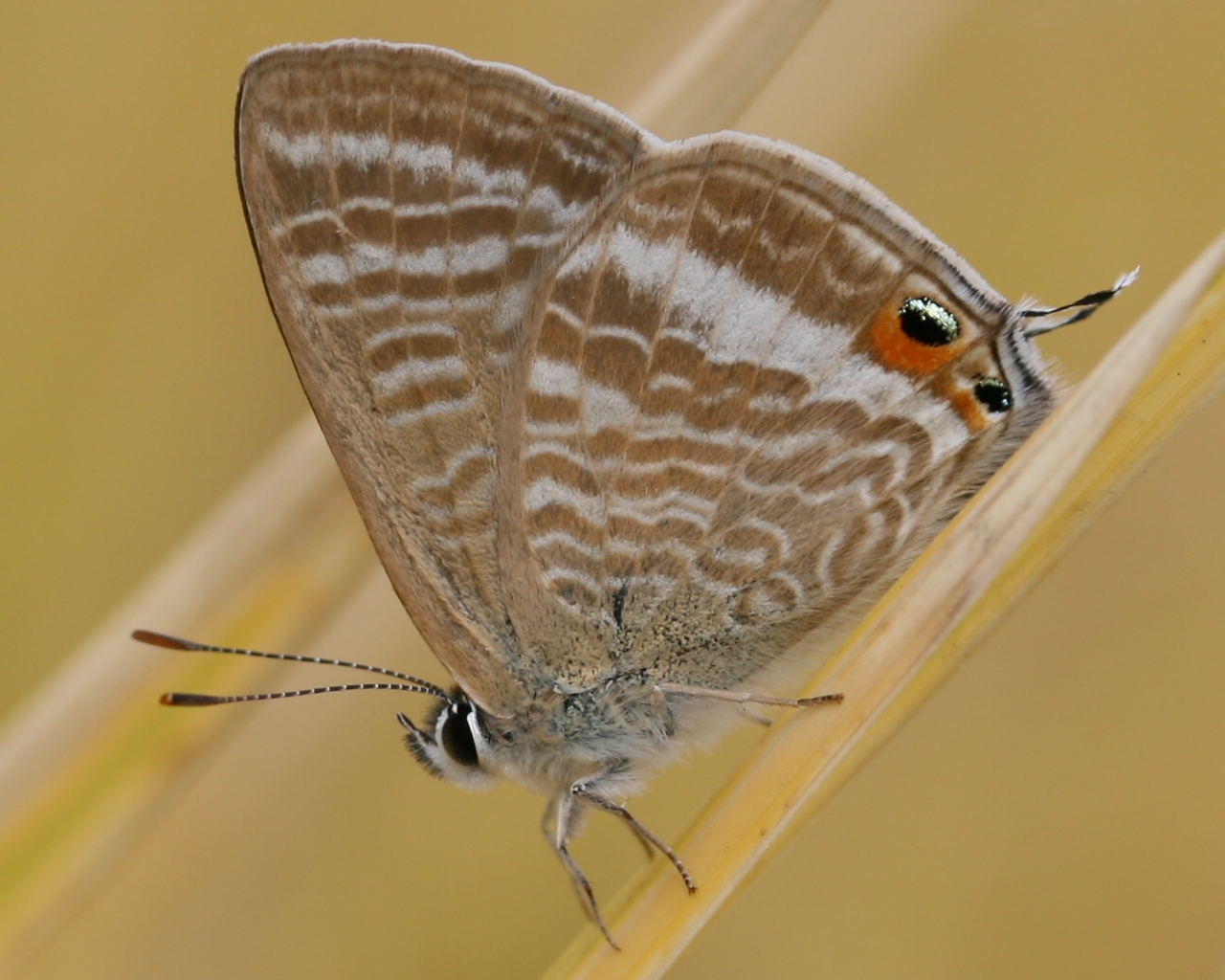 Lampides boeticus